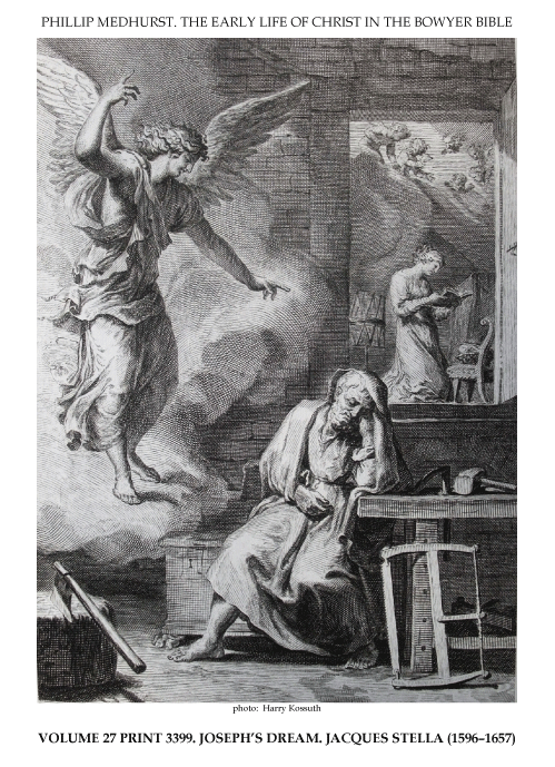 The foster-father of Jesus is seated at a table at right, sleeping; the angel appears at left; in the background, at right, the Virgin, kneels and reads a book